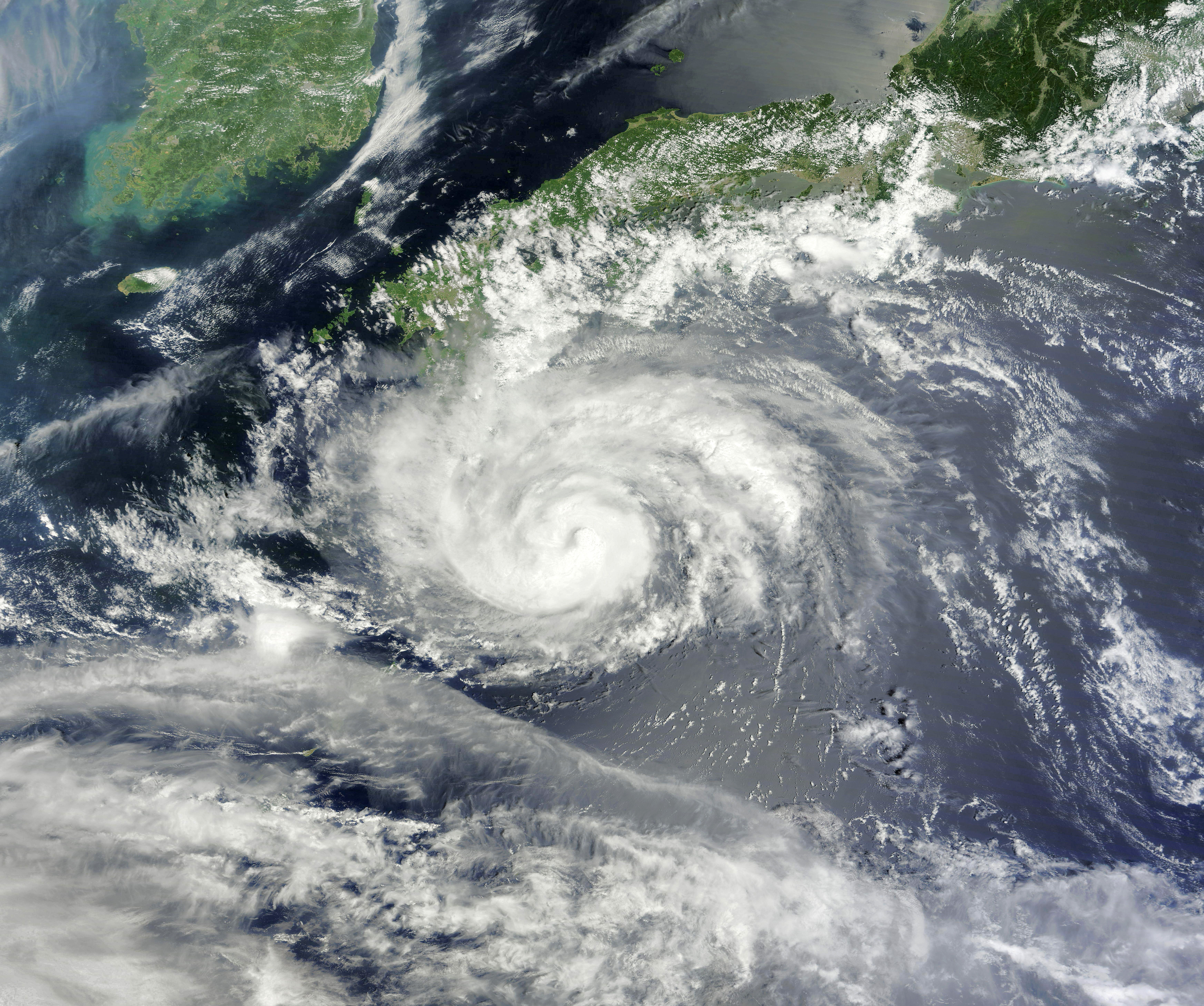 Severe Tropical Storm Damrey near the coast of Southern Japan on August 1, 2012.